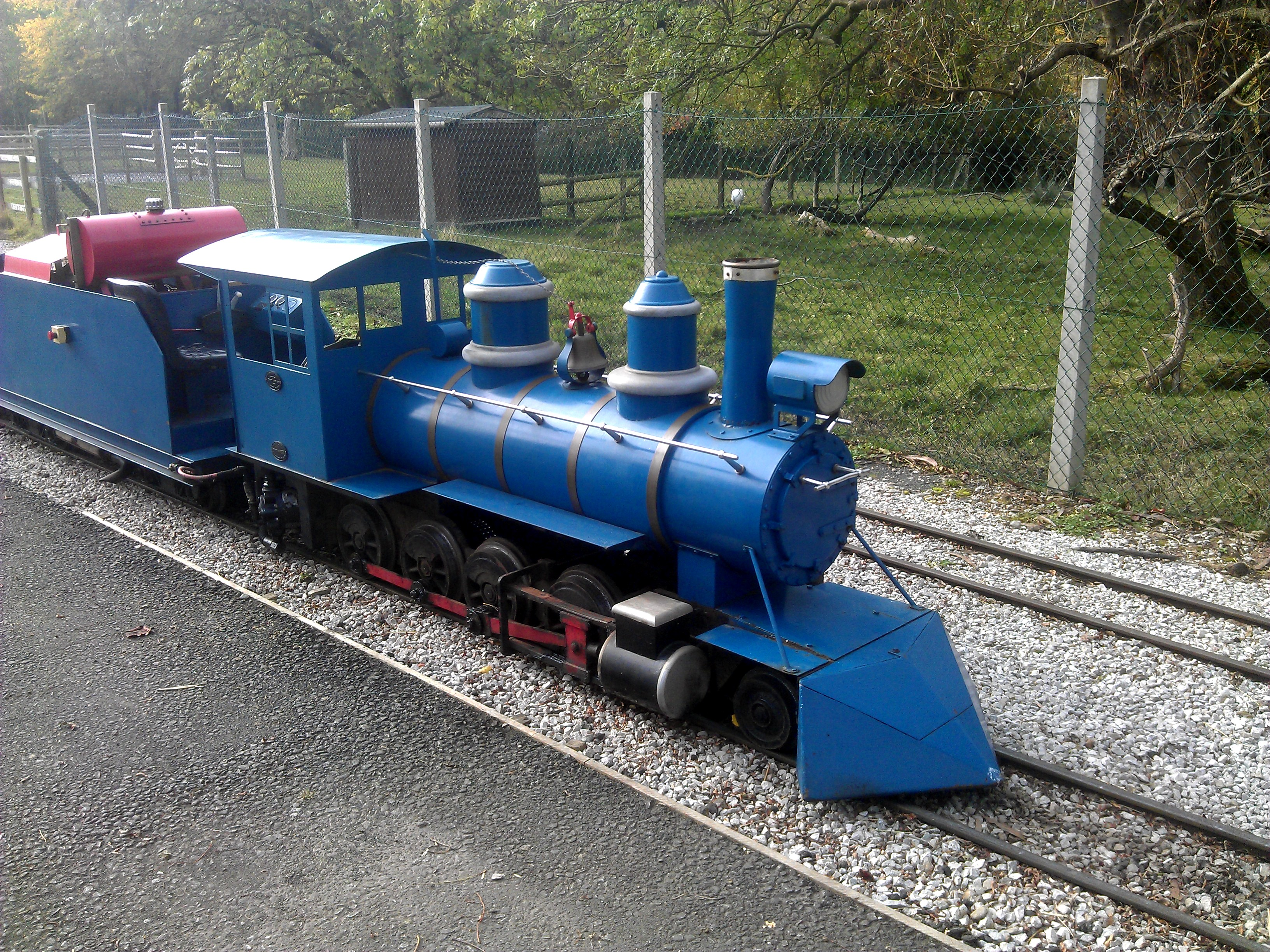 Miniature Railway at Blackpool Zoo